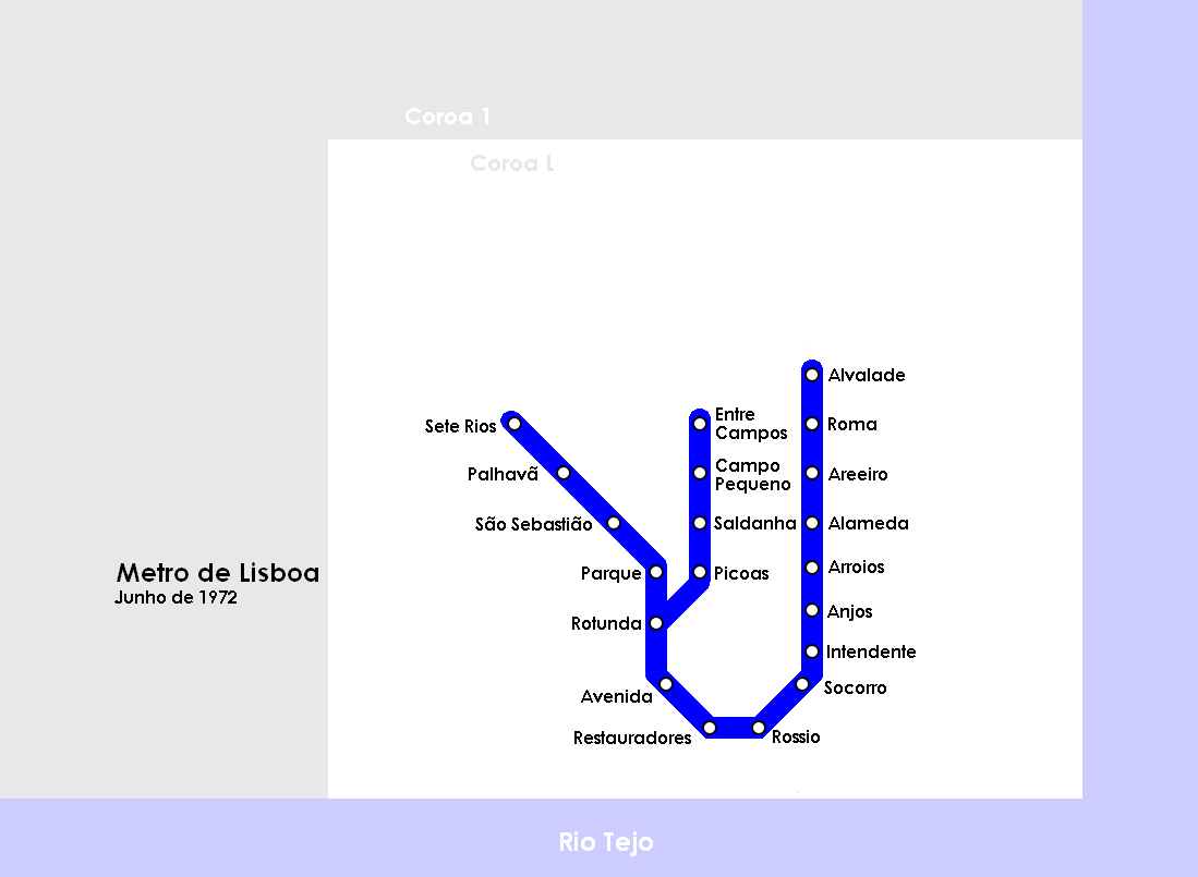 Map of Lisbon Metro in June 1972